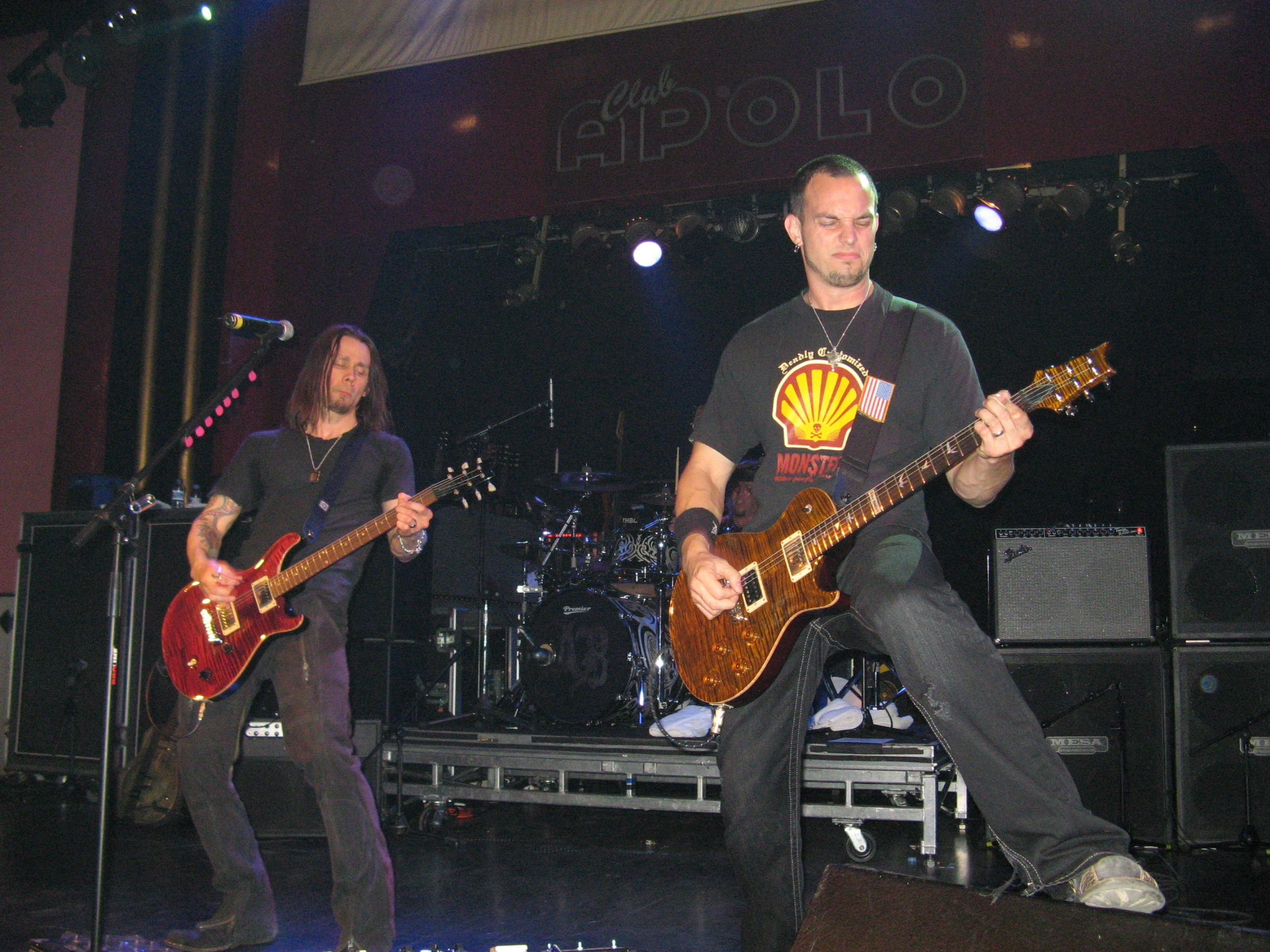 Myles and Mark from Alter Bridge